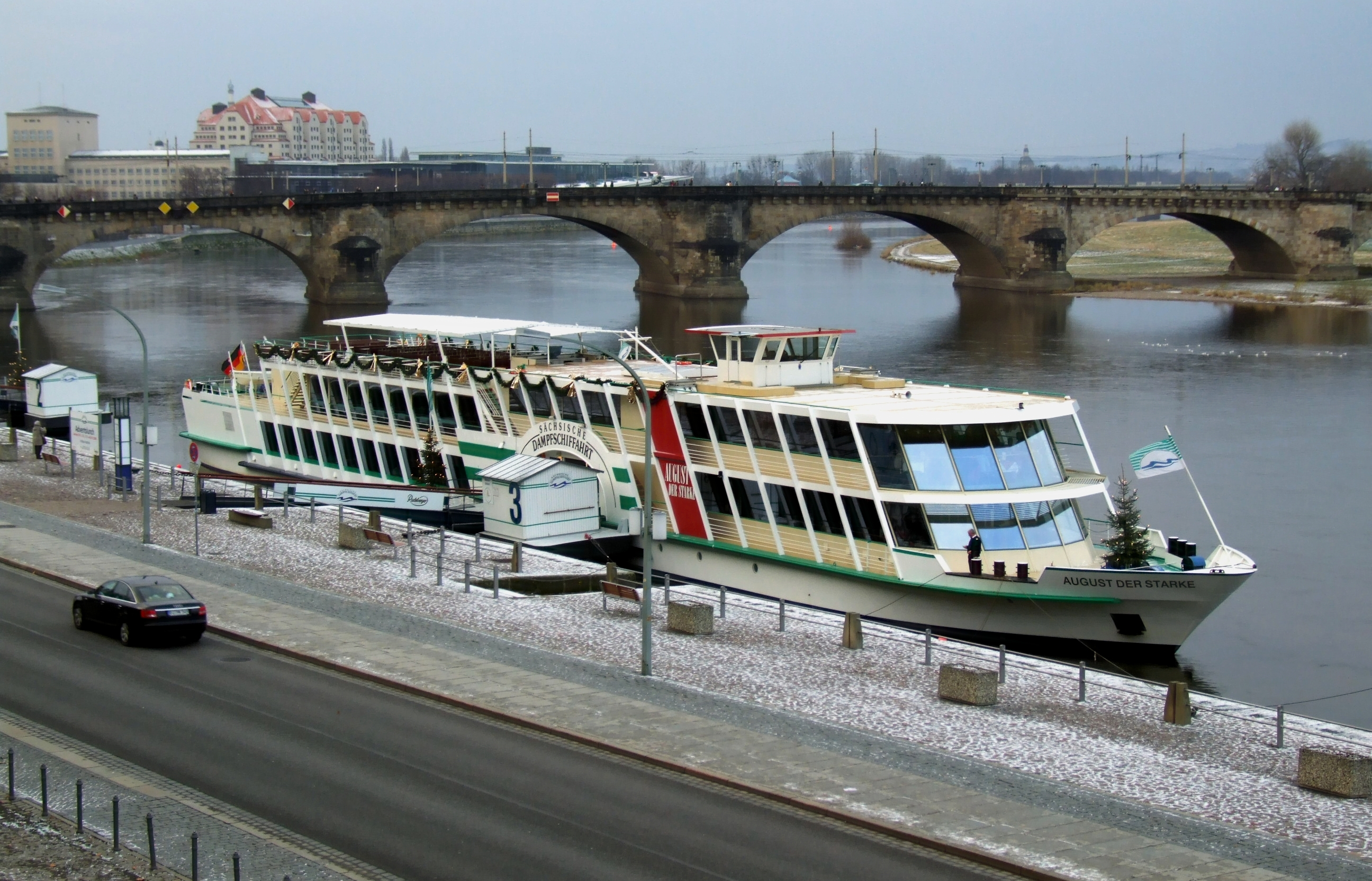 MS August de Starke - the motor ship on the Elbe